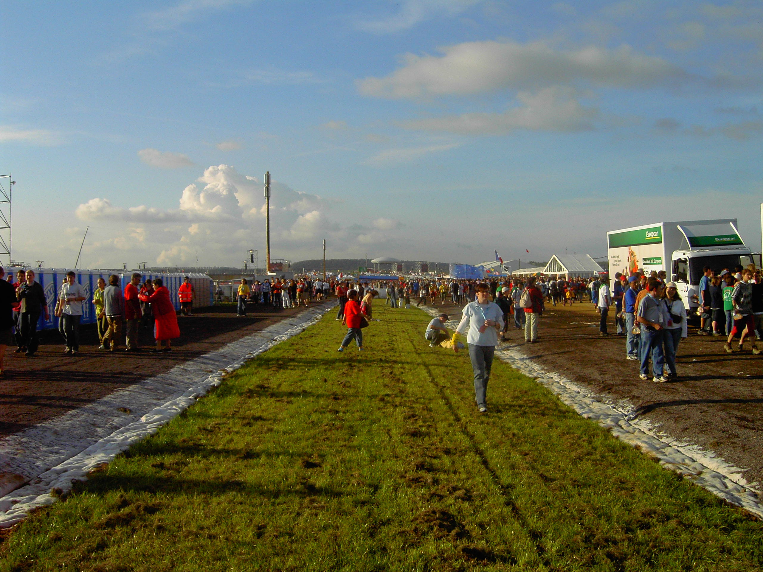 View on the Marienfeld, WJT 2005. In the background: The pope hill.